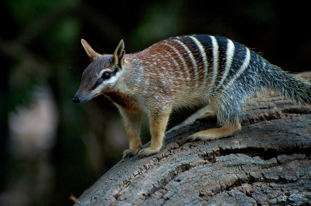 Numbat, Perth Zoo, 2010.